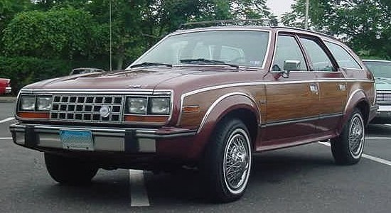 1987 American Motors (AMC) Eagle wagon AWD (all wheel drive) finished in burgundy with wood grain trim and the optional wire wheel covers. Picture was taken at the 2003 AMCRC (AMC Rambler Club) show in Somerset, New Jersey, USA.